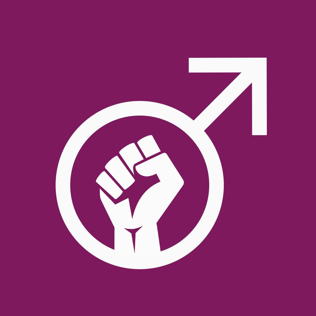 The symbol of the masculist movement is the clenched fist (symbol of struggle and resistance) enclosed in the "shield and spear of Mars" (symbol of men). Purple background color is the traditional color of masculism.